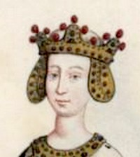 Mary of Avesnes